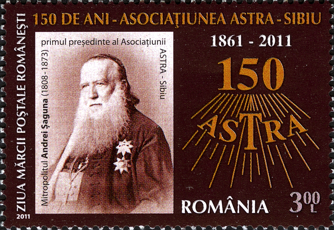 Stamps of Romania, 2011